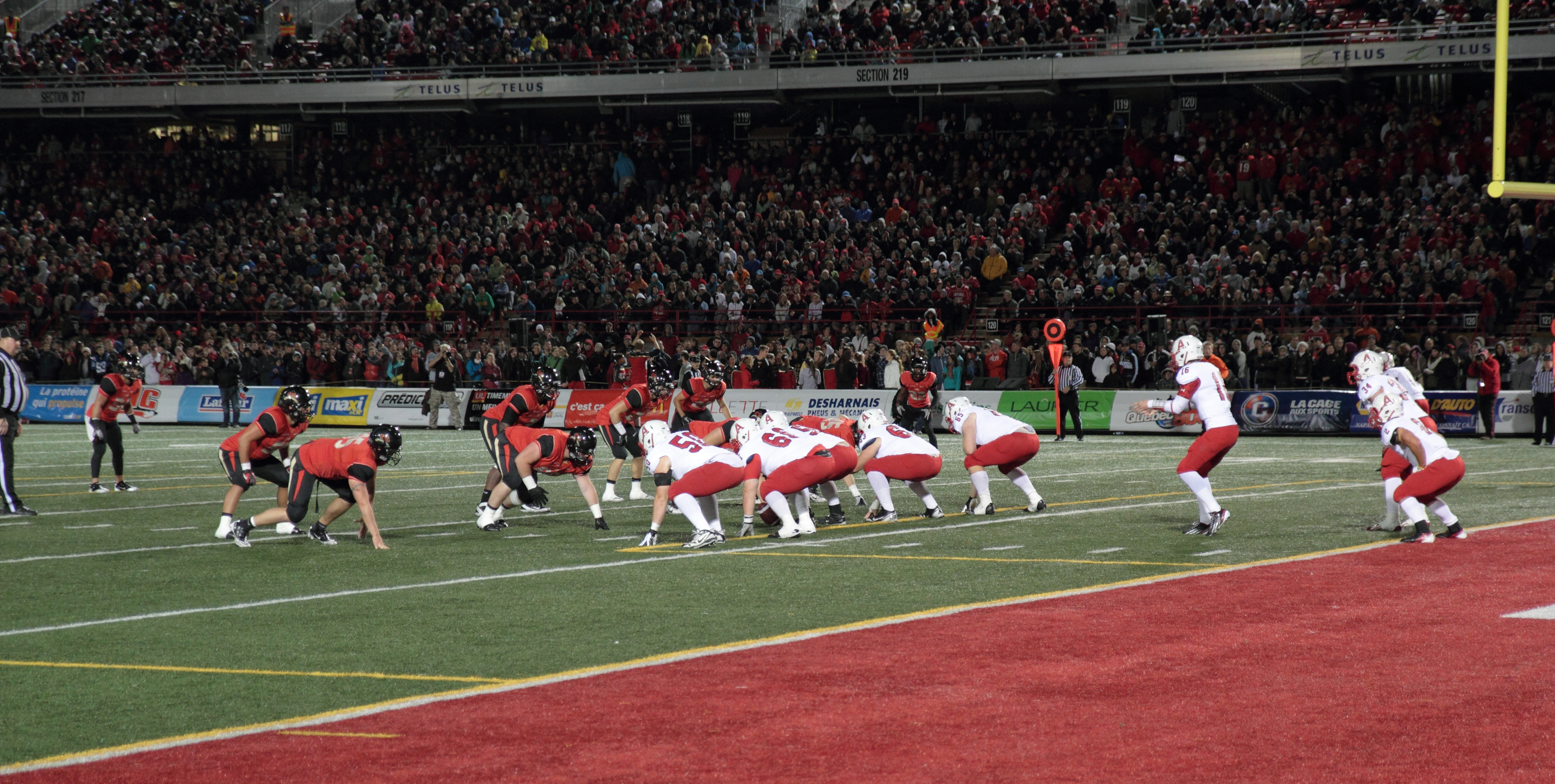 Football game opposing Axemen and Laval Rouge et Or at Laval on september 15 2012.